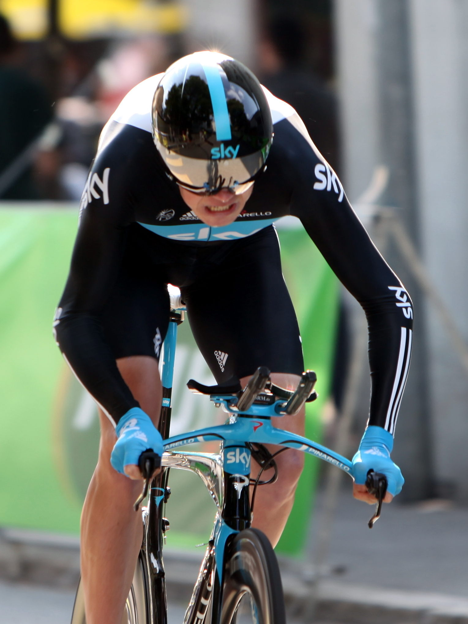 Christopher Froome at the prologue of the Tour de Romandie 2011